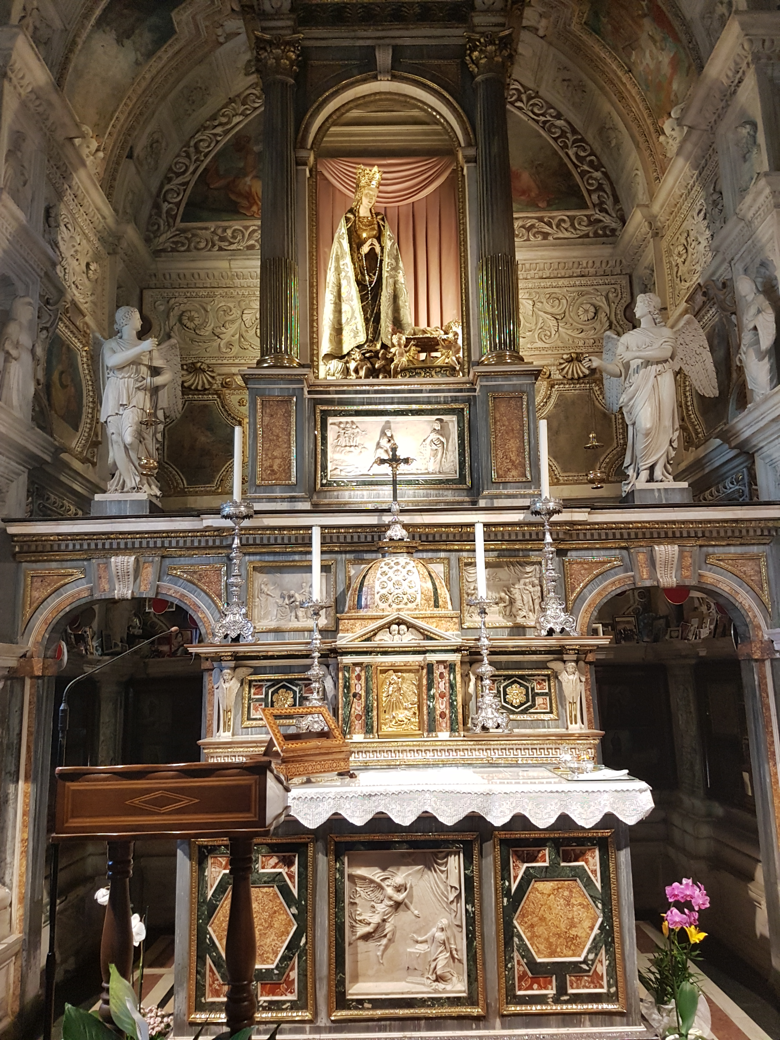 Sanctuary and Basilica Madonna di Tirano in Tirano, province Sondrio, region Lombardy in Italy.